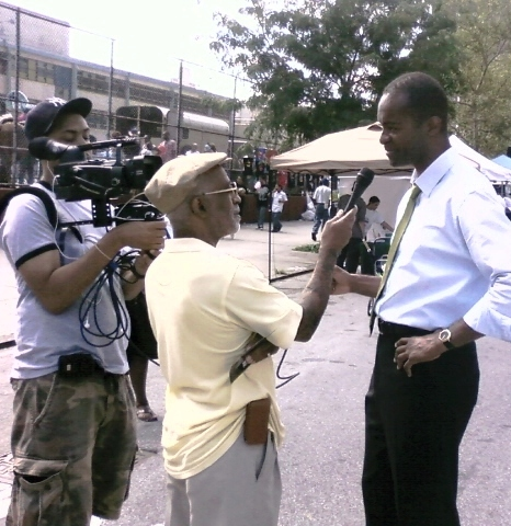 CS interview